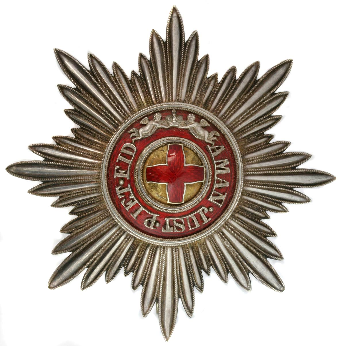 Star of the Order od Saint Anna Russia around 1908.